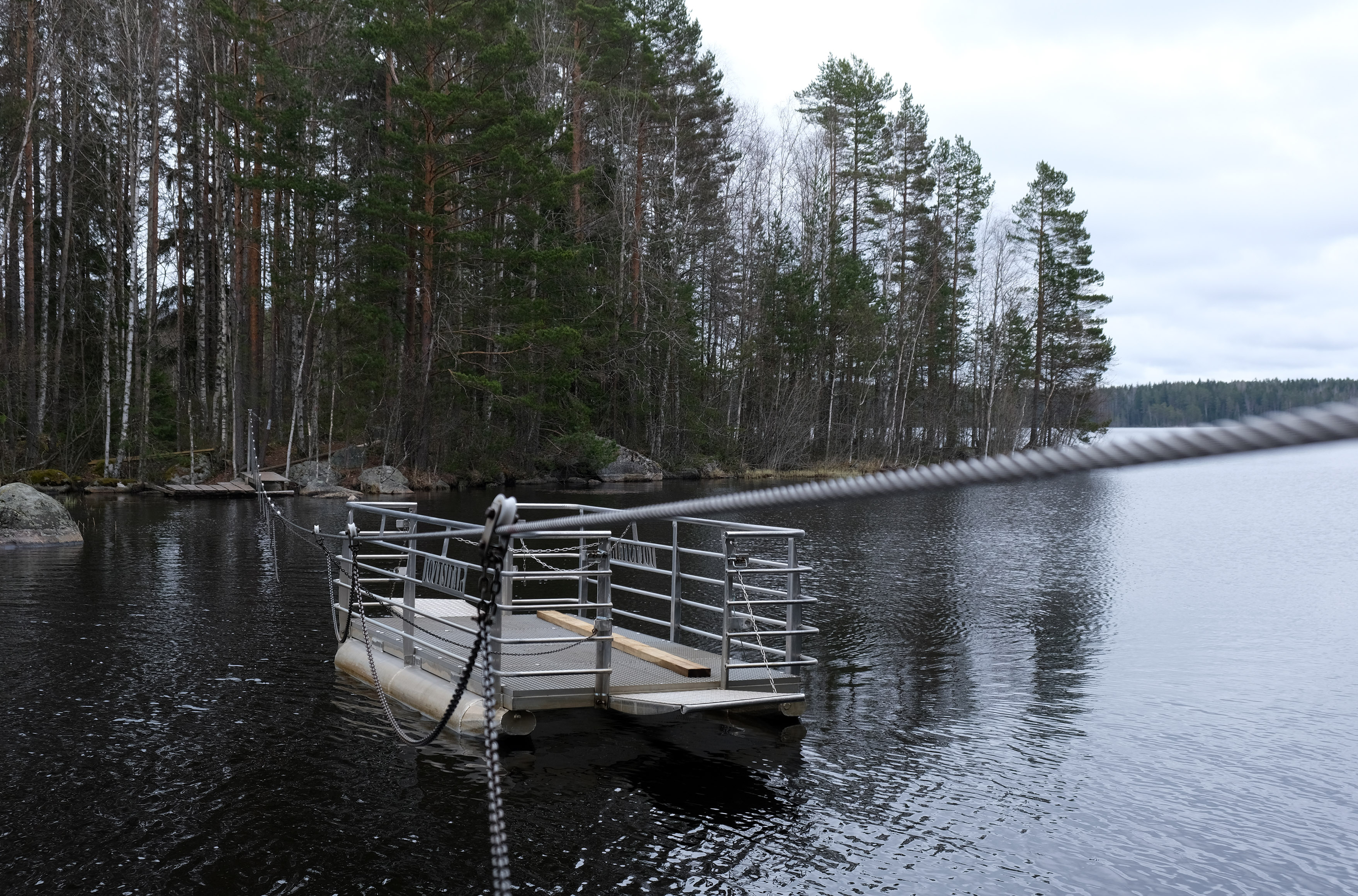 Cable ferry in Lake Joutsijärvi, Kullaa, Finland.